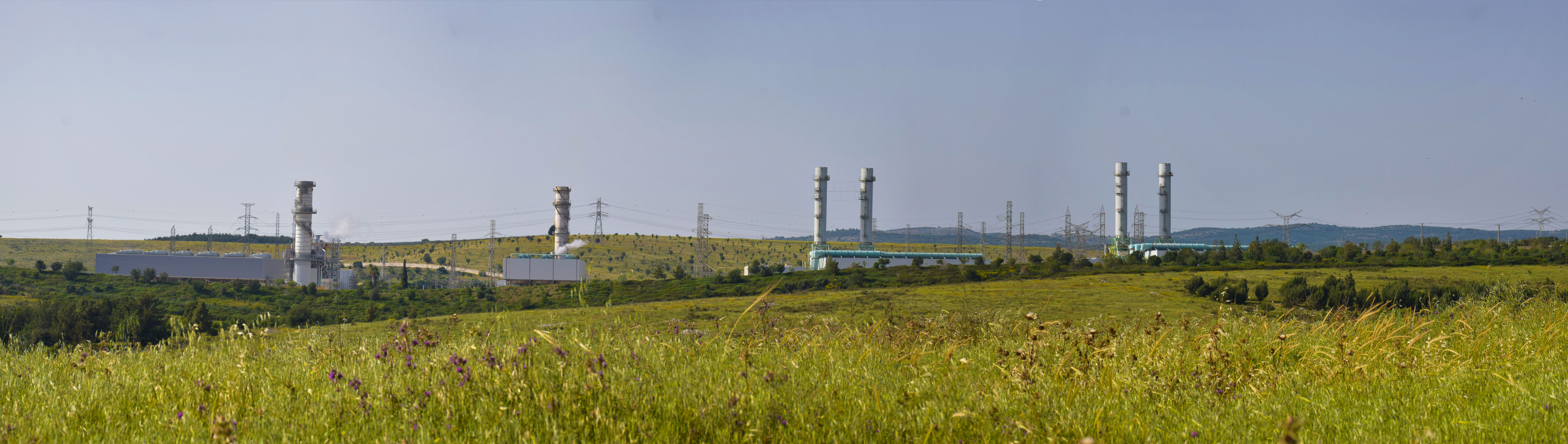 Hagit Power Plant, Panoramic View